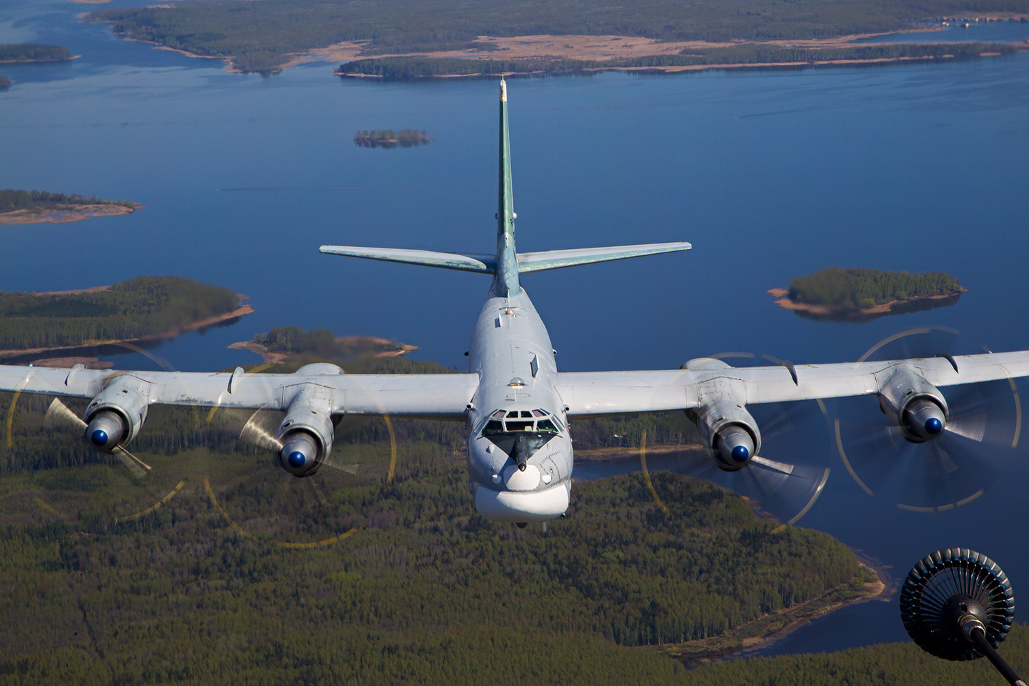 Air-to-air refuelling of Tupolev Tu-95MS